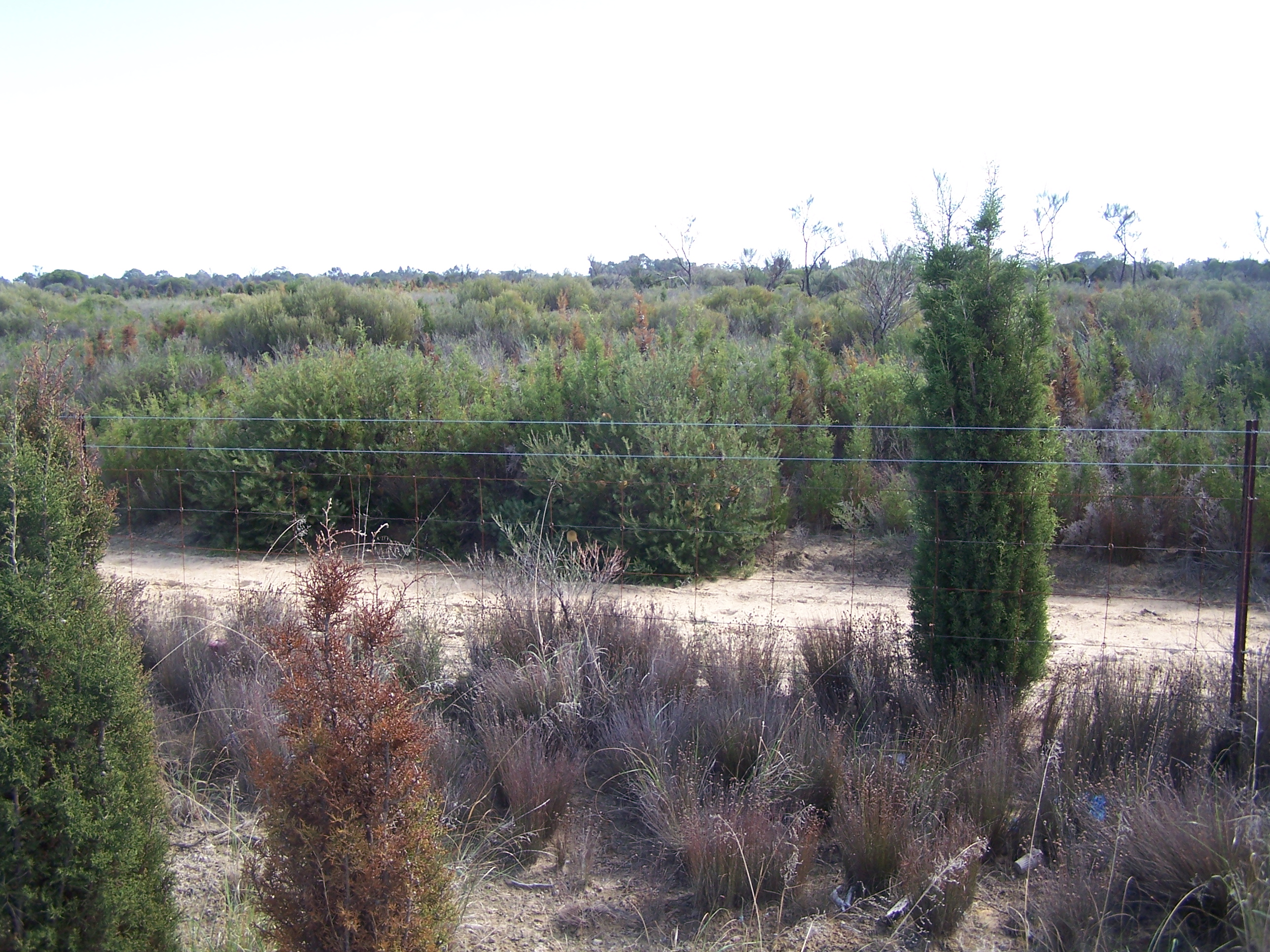 Images of Banksia telmatiaea taken in the Yule Brook Reserve, Kenwick Western Australia